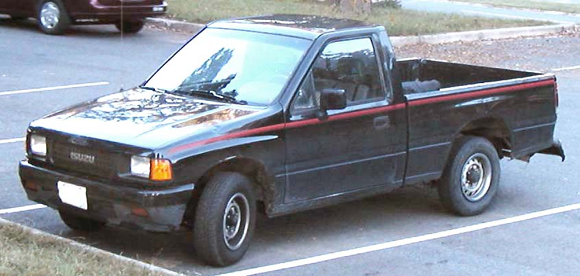 Isuzu Pickup photographed in USA.